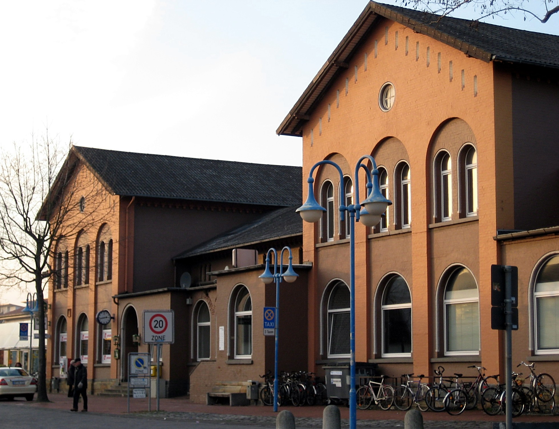 in Bünde, District of Herford, North Rhine-Westphalia, Germany.